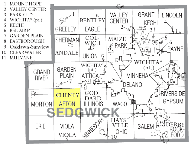 Map of Sedgwick County, Kansas highlighting Afton Township